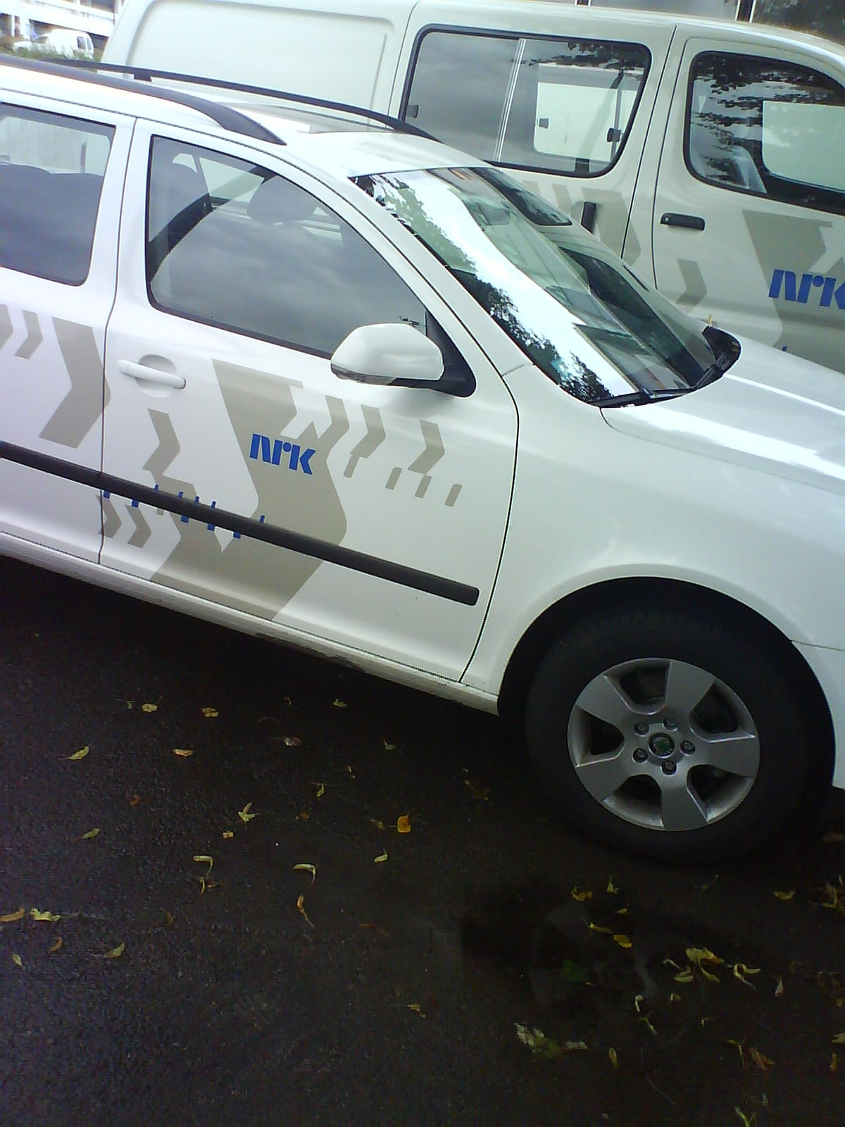 Cars from NRK Nyheter